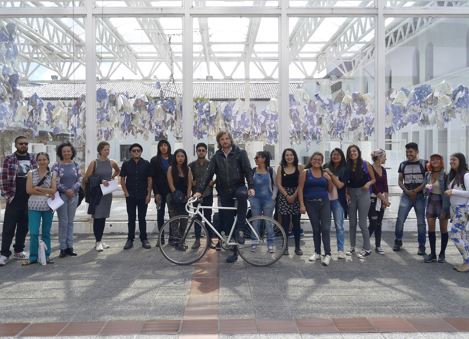 German artist Sebastian Bieniek with his students at the PUCE (Pontificia Universidad Católica del Ecuador) in 29th november of 2016.